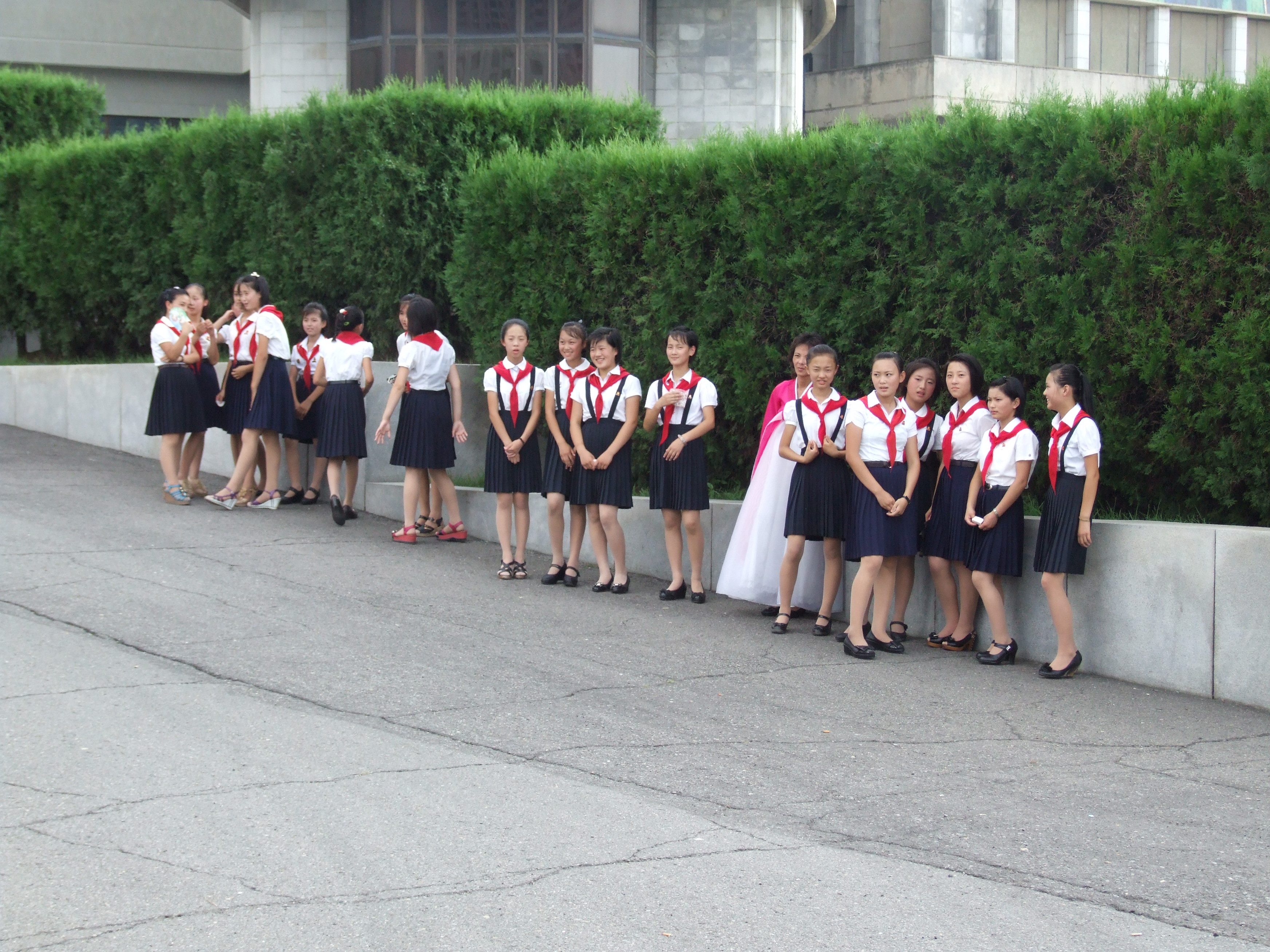 Mangyongdae Children's Palace